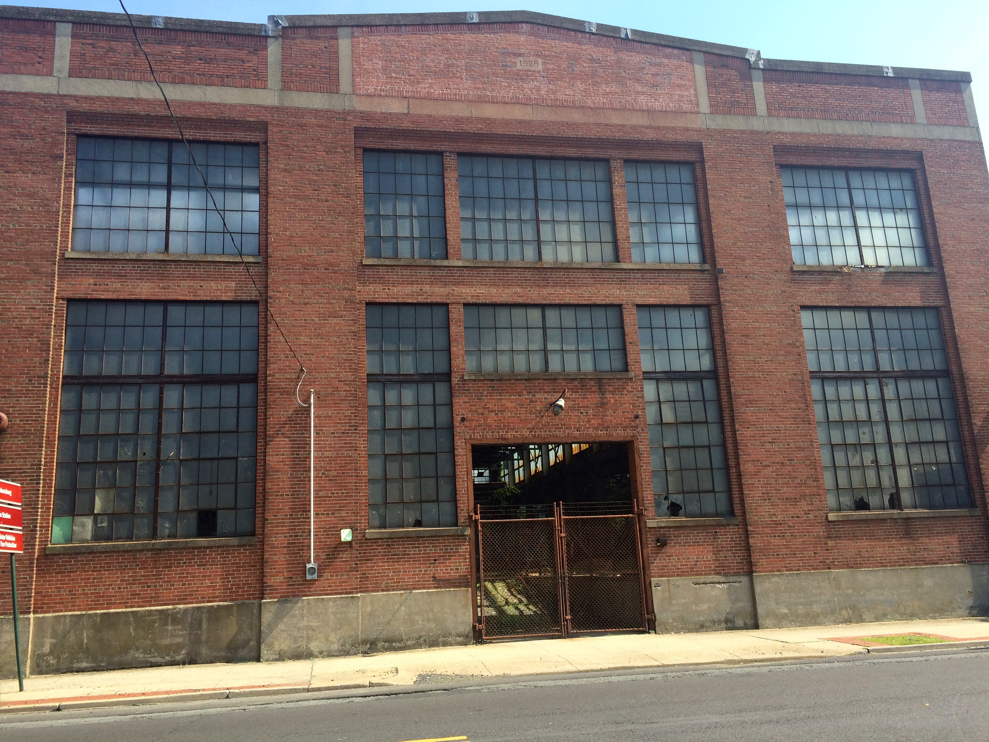 Building 114, the Elmer Street Rope Shop North Extension (1929), of John A. Roebling's Sons Company, Trenton N.J., Block 3, a National Register of Historic Places listed site in Trenton, New Jersey